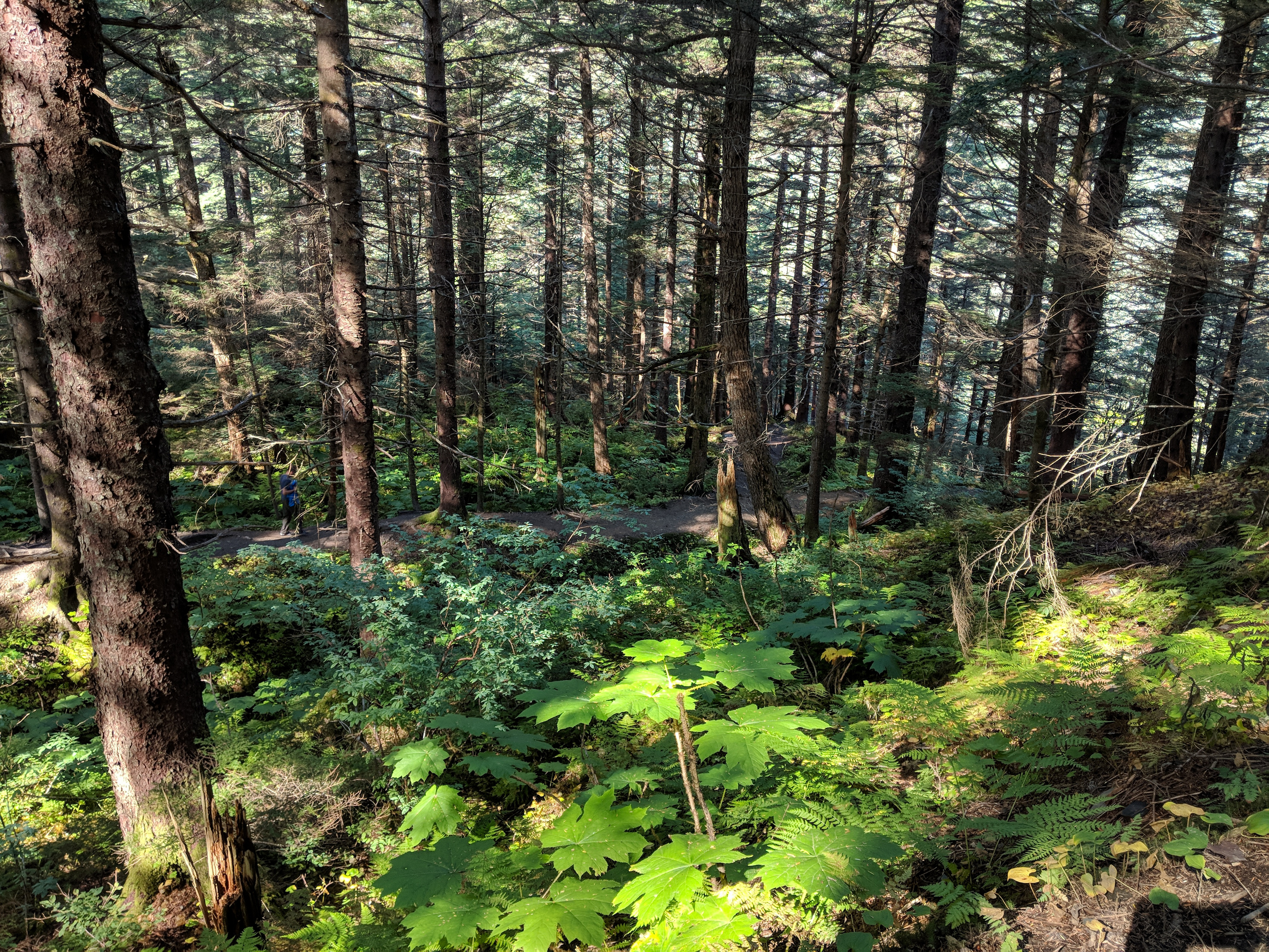 A portion of the trail up the north side of Mount Roberts, through dense hemlock forests.